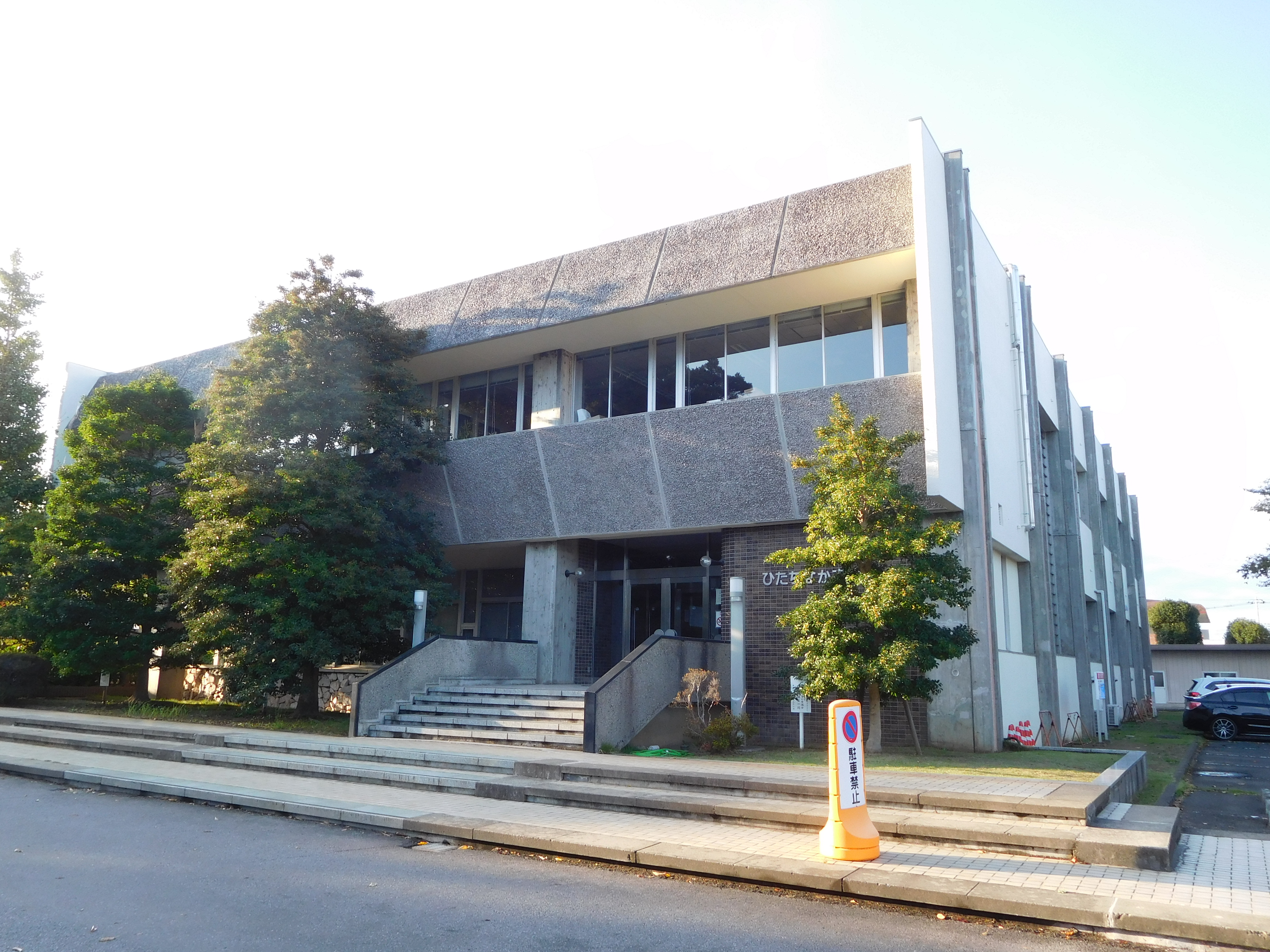 This is Hitachinaka city hall in City of Hitachinaka, Ibaraki, Japan.